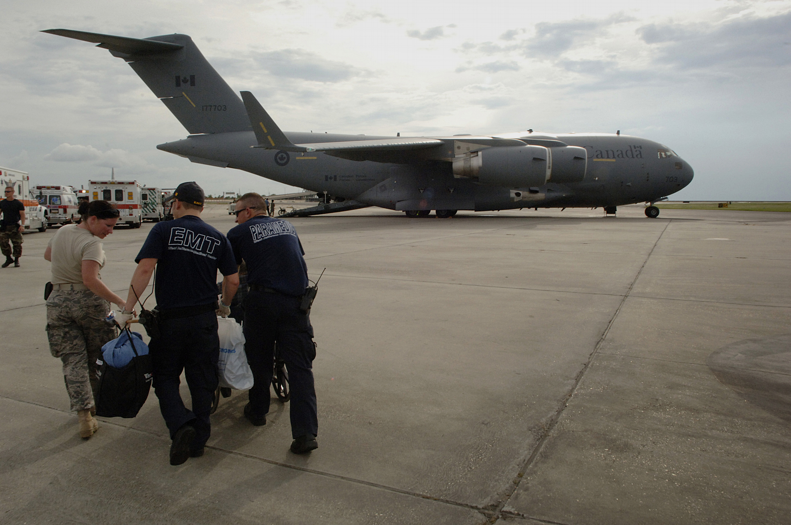 Emergency vehicles carrying evacuees of Hurricane Gustav stage near Royal Canadian Air Force CC-17 177703 at Lake Front Airport, New Orleans, LA., Aug. 31, 2008.